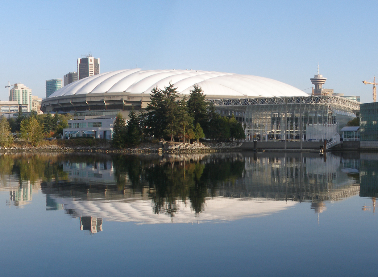 B.C. Place from False Creek Original caption: I live in such a wonderful city.